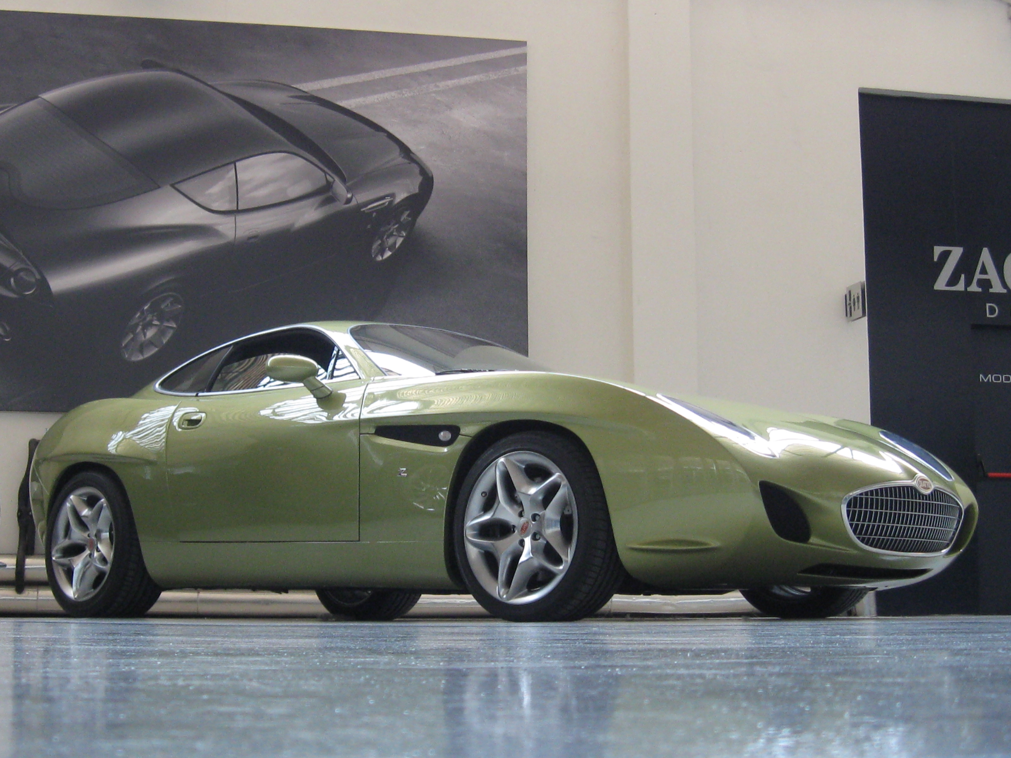 A picture of a working concept car styled by Zagato. The car was called "Ottovu Diatto".